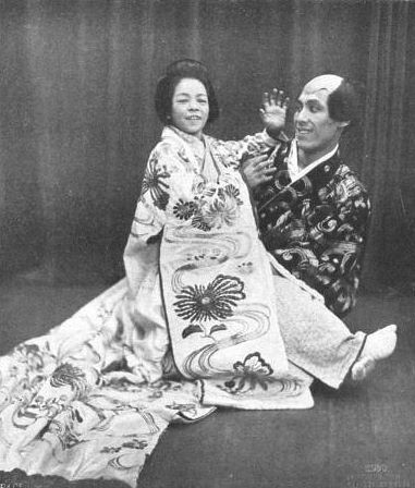 Hisa Ōta (大田 ひさ / 1868–1945), aka. Hinako. Japanese actress, Rodin-Model, presumeably at Ronacher in Vienna, Austria.